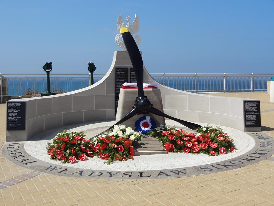 The Sikorski Memorial is dedicated to General Wladyslaw Sikorki, the commander-in-chief of the Polish Army and Prime Minister of Poland in exile who was killed in an air crash on the 4 July 1943. His plane had crashed into the sea 16 seconds after takeoff from Gibraltar Airport. This memorial has been recently been relocated here to Europa Point in the British overseas territory of Gibraltar. The memorial was dedicated again in its new position on the 4 July 2013 which was the 70 anniversary of the crashed B-24 aircraft and the death of the war time hero.